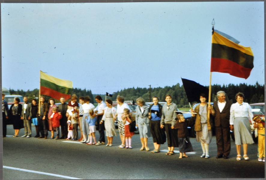 Photo of the Baltic Way near Širvintos, Lithuania